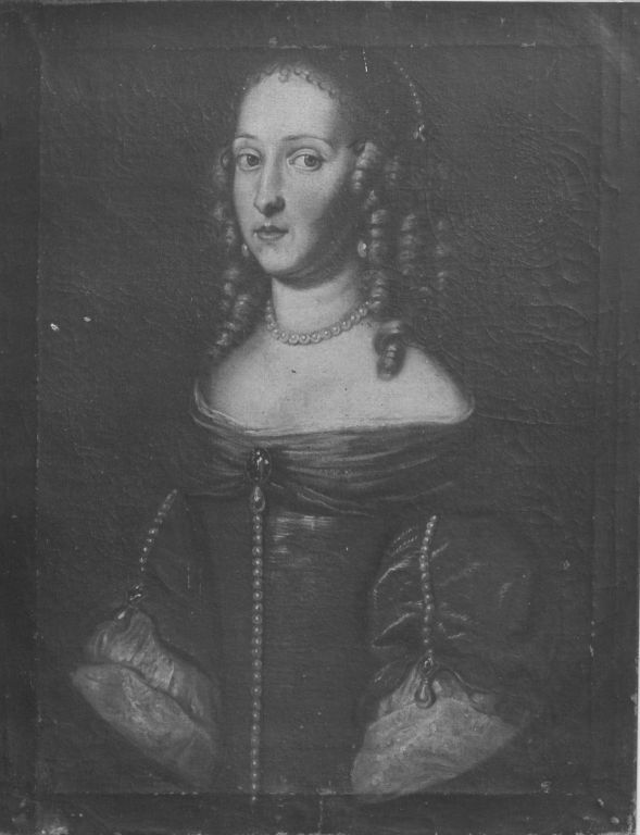 Portrait of Marie Hedwig of Hesse-Darmstadt (1647-1680), wife of Bernhard I, Duke of Saxe-Meiningen